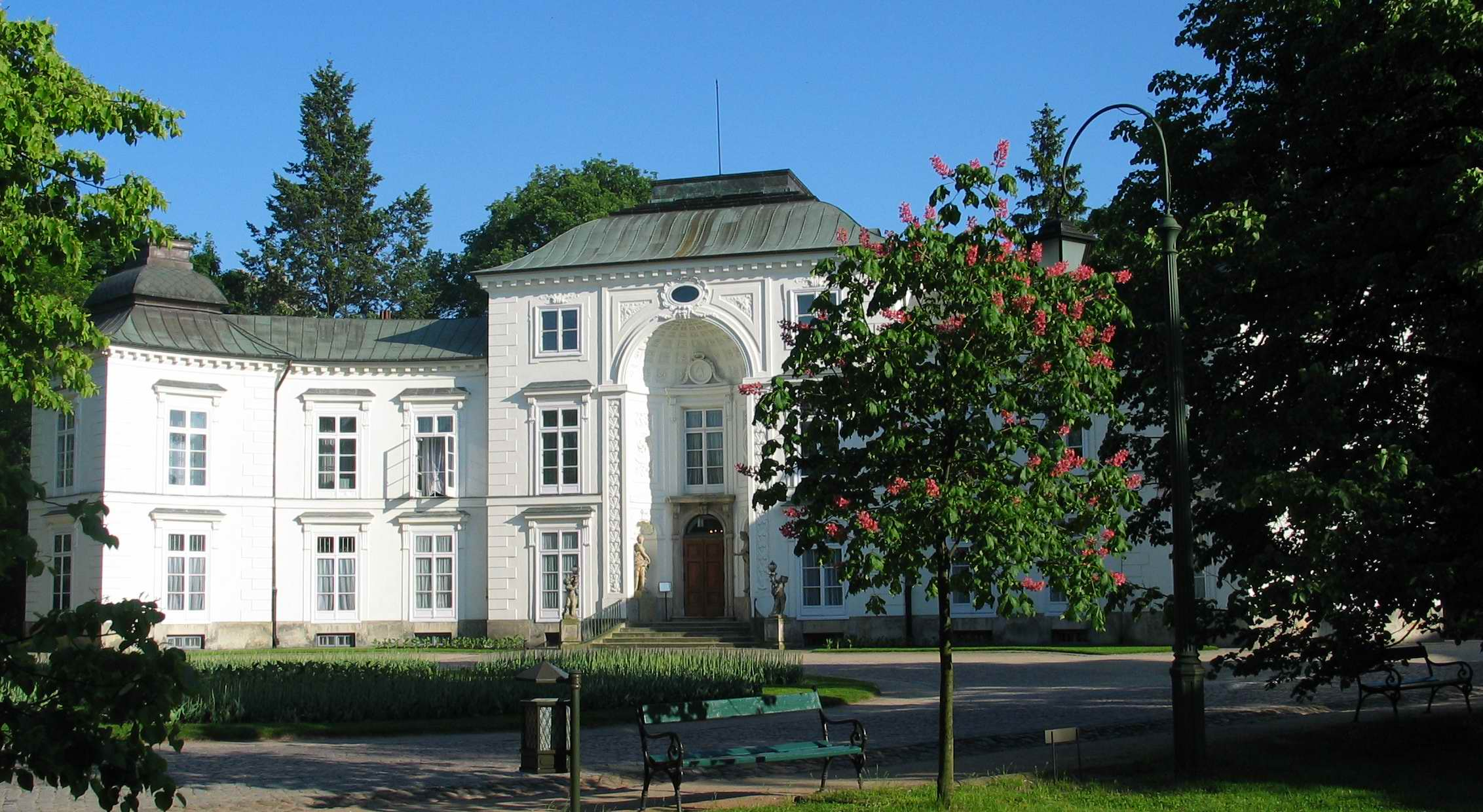 Łazienki Królewskie (Royal Baths) in Warsaw, Myślewicki Palace